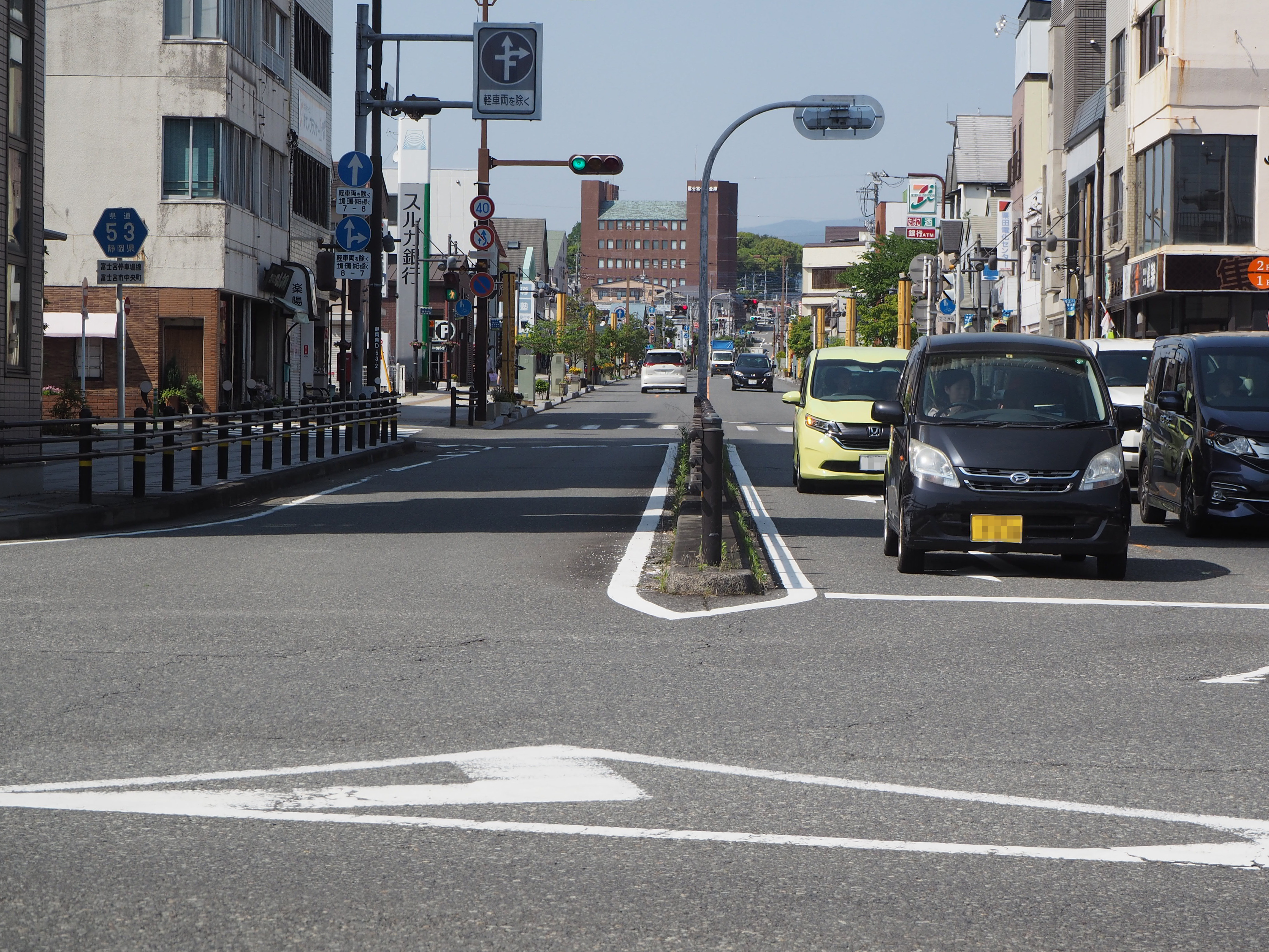 Shizuoka prefectural road Route 53